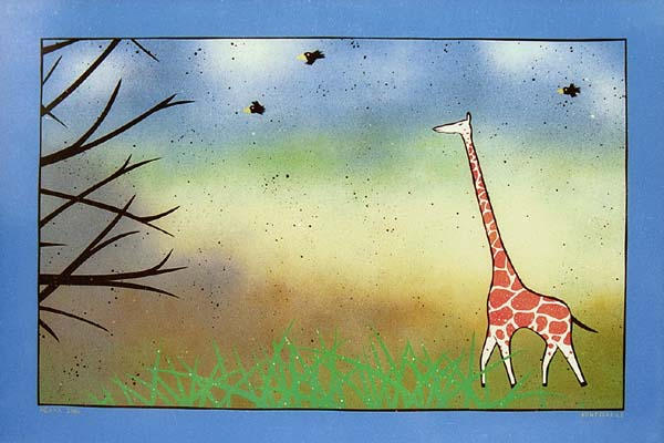 "To the Concert", acrylic painting of Nerva